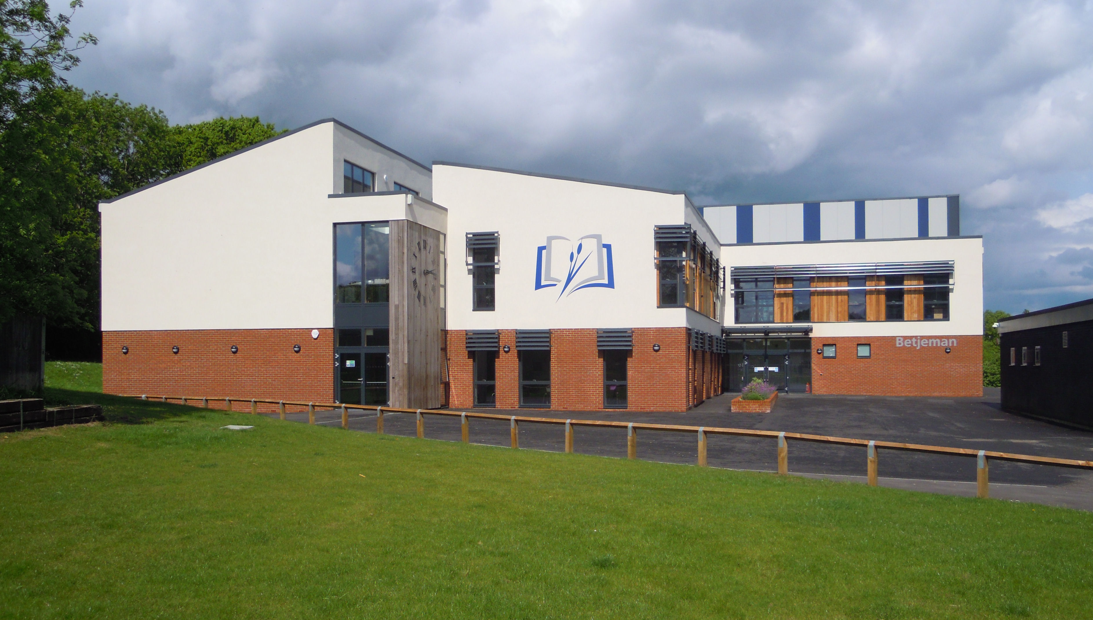 Betjeman block at Farnham Heath End School in Farnham, Surrey in 2020